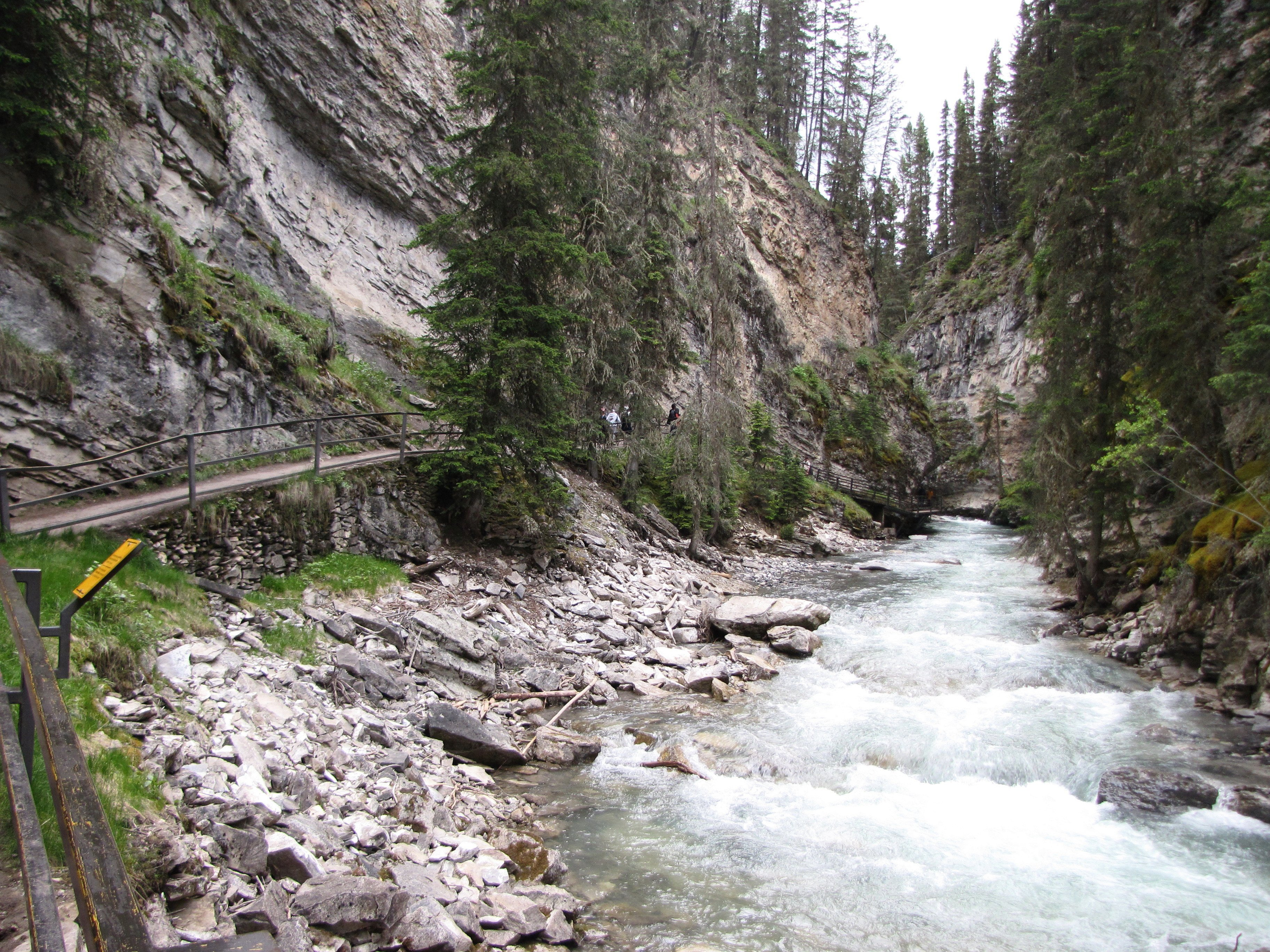 Johnston Canyon